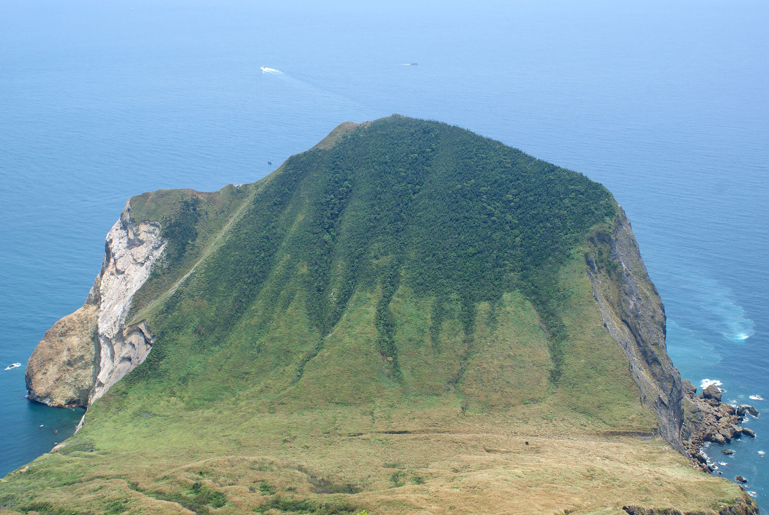 Gueishan Island 龜山島－龜首披髮